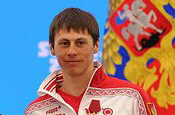 Aleksandr Bessmertnych (1986), cross-country skier from Russia (cropped from File:Vladimir Putin and Aleksandr Bessmertnykh 24 February 2014.jpeg